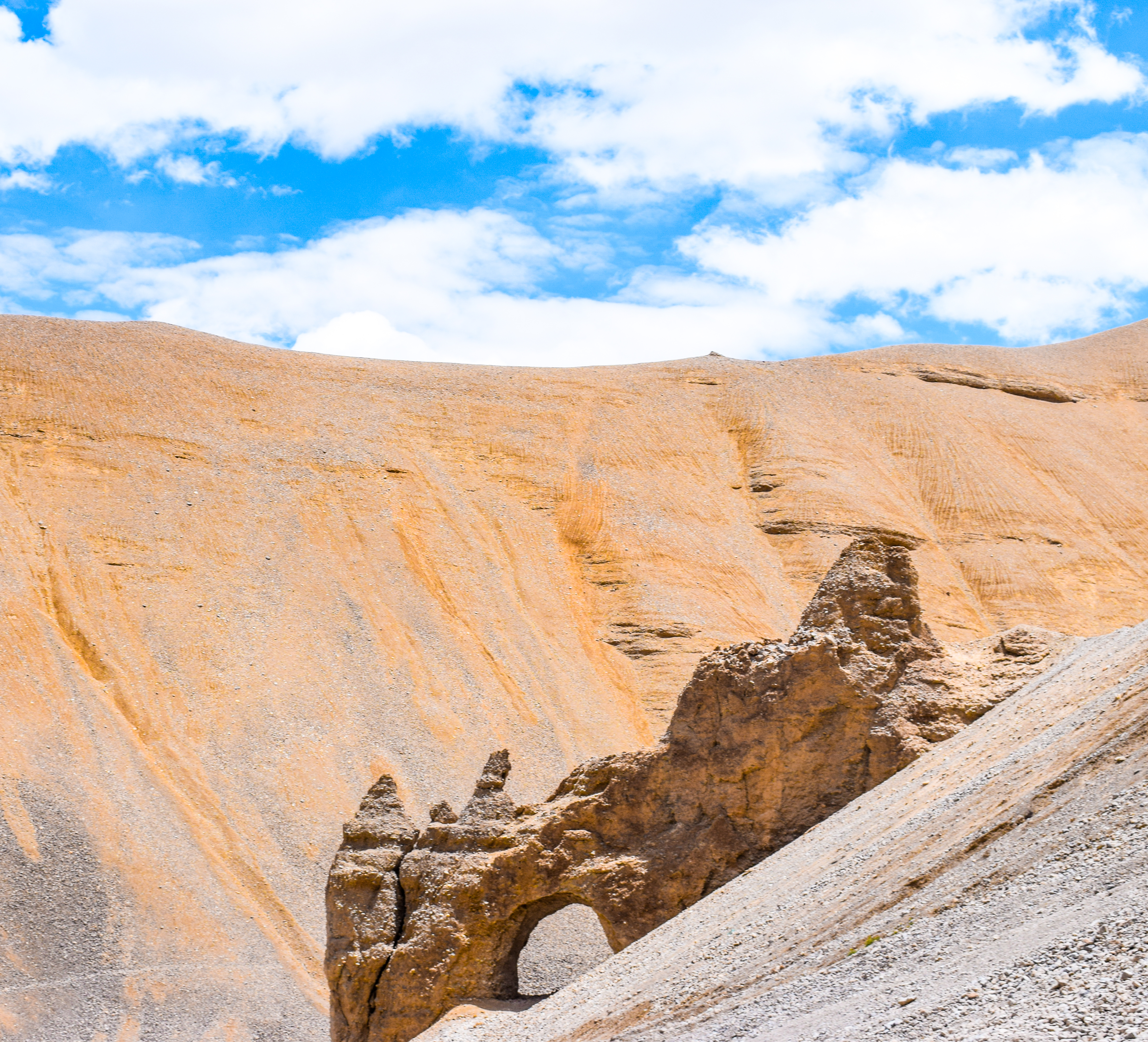 Natural Rock Formations Near Pang, Ladakh